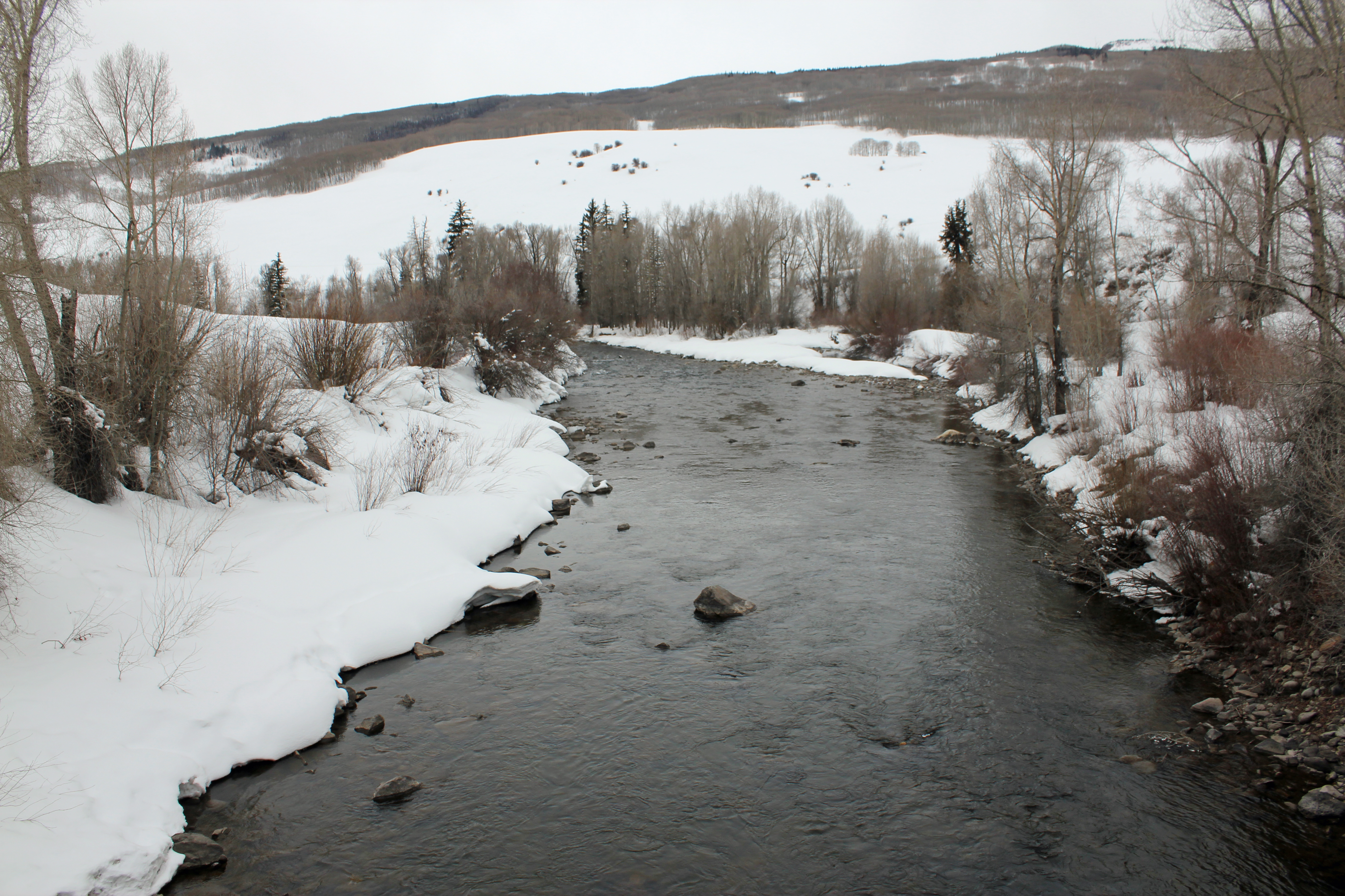 The East River in Gunnison County, Colorado. The view is from a bridge on Colorado State Highway 135 between Crested Butte and Almont.